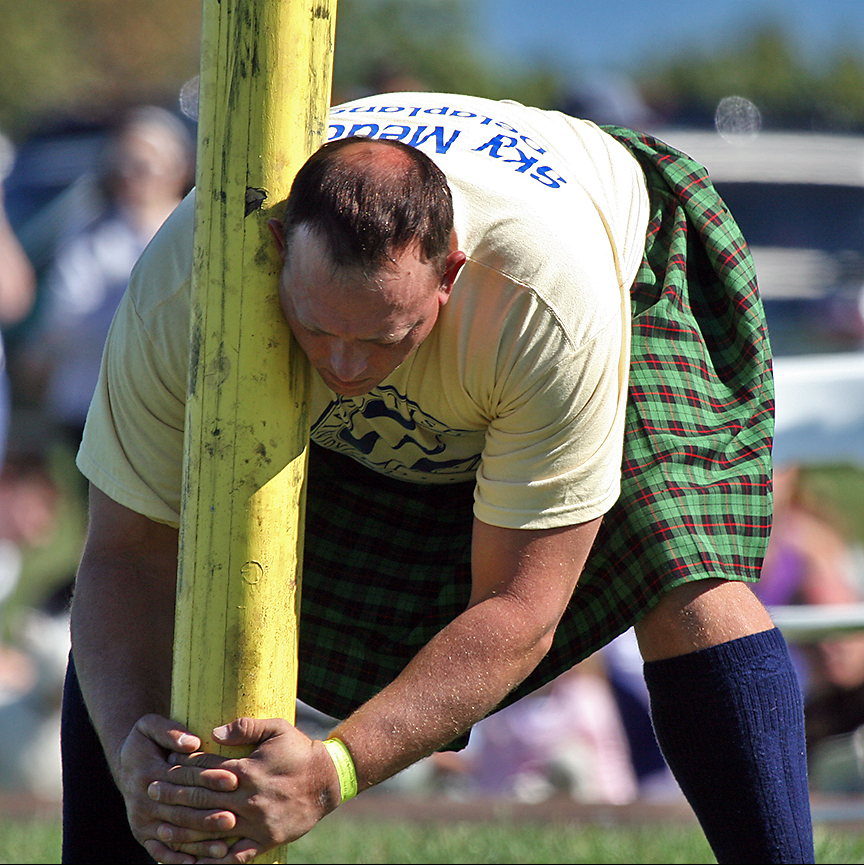 At the Virginia Scottish Festival today out in the beautiful rolling countryside. And o.k., I know I'm going to be asked... The caber toss is a popular segment of any Highland Games. A sport that goes back a few hundred years and is believed to have originated in the times of war as a means of battle or bridge building. The caber is approximately 16-20 feet in length, weighing an average of 100-plus pounds. An athlete will cup both hands under the bottom of the caber and, while running forward with great strength and balance, throw the caber into the air so that the caber will flip 180 degrees, implant its top end into the ground, and fall over. The object of the game is for the caber to land in a straight line away from the athlete and is judged by its proximity to the athlete in the manner of a clock's hand, with 12 o'clock being the best score. The caber is made of wood, is tall and is very heavy. The athletes who participate in this event have strength and balance that take years of practice to master. So if the idea of running with a telephone pole and hurling it with all your might sounds like a good time, then you might want to watch for the next Scottish Highland Games that comes to your town and sign up to participate in this ancient sport of skill and strength. (description from )